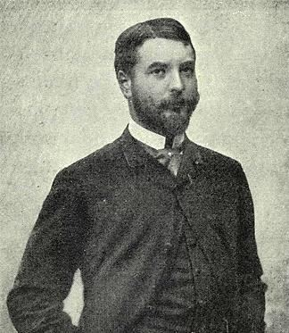 French art critic, Louis Gonse (1846-1921)